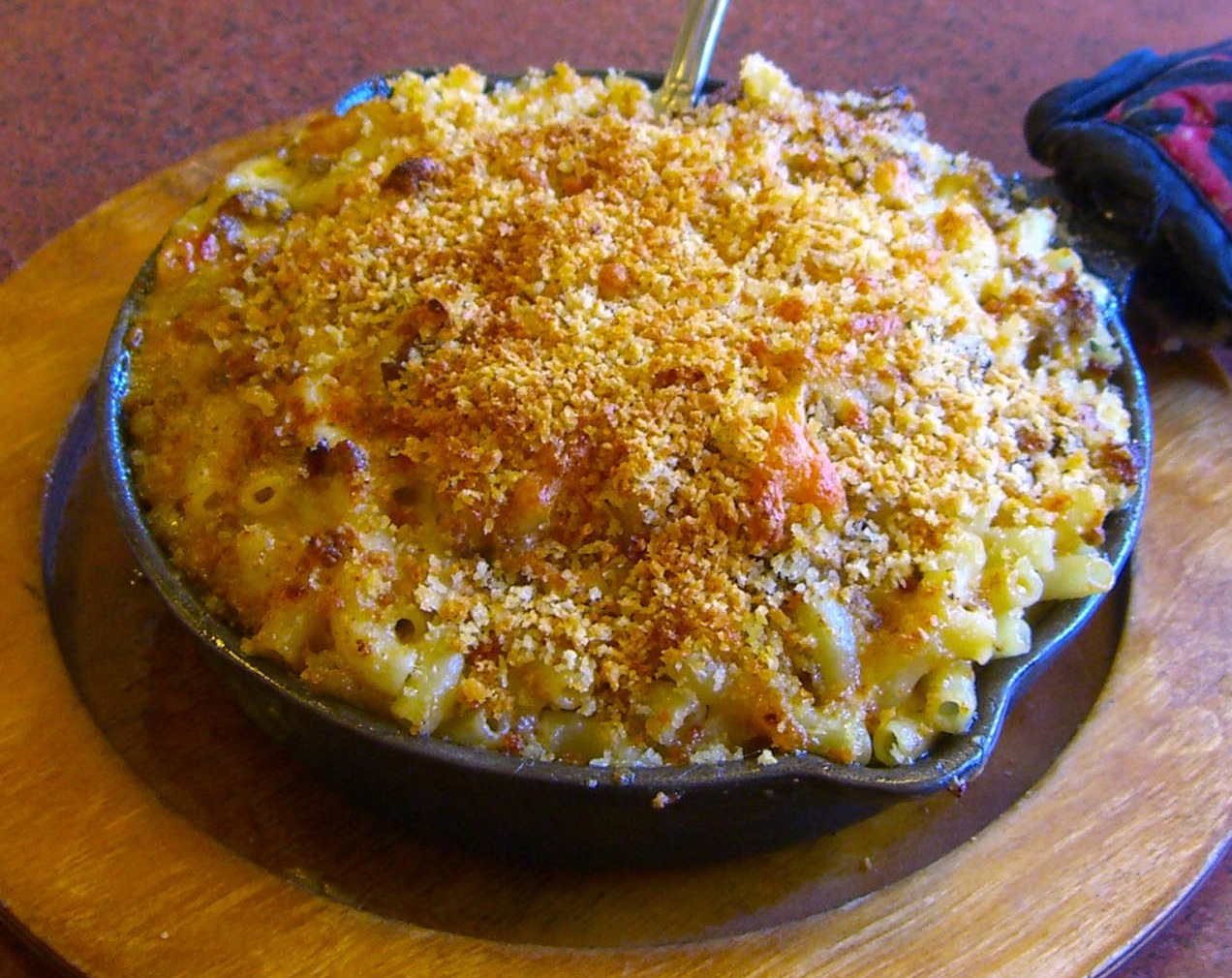 An order of "cheeseburger" macaroni and cheese, ordered at Pizza Republic, a pizzeria in Hoboken, New Jersey whose menu includes a macaroni and cheese menu featuring 14 different variations of the dish. The cheeseburger variation includes ground beef, and is topped with bread crumbs. This photo was created by Luigi Novi. It is not in the public domain, and use of this file outside of the licensing terms is a copyright violation.